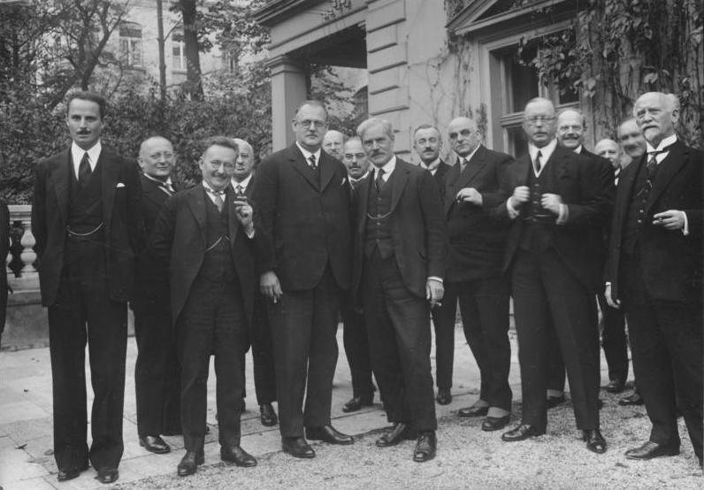 Information added by Wikimedia users.Kabinett Müller I 27. März 1920 - 21. Juni 1920